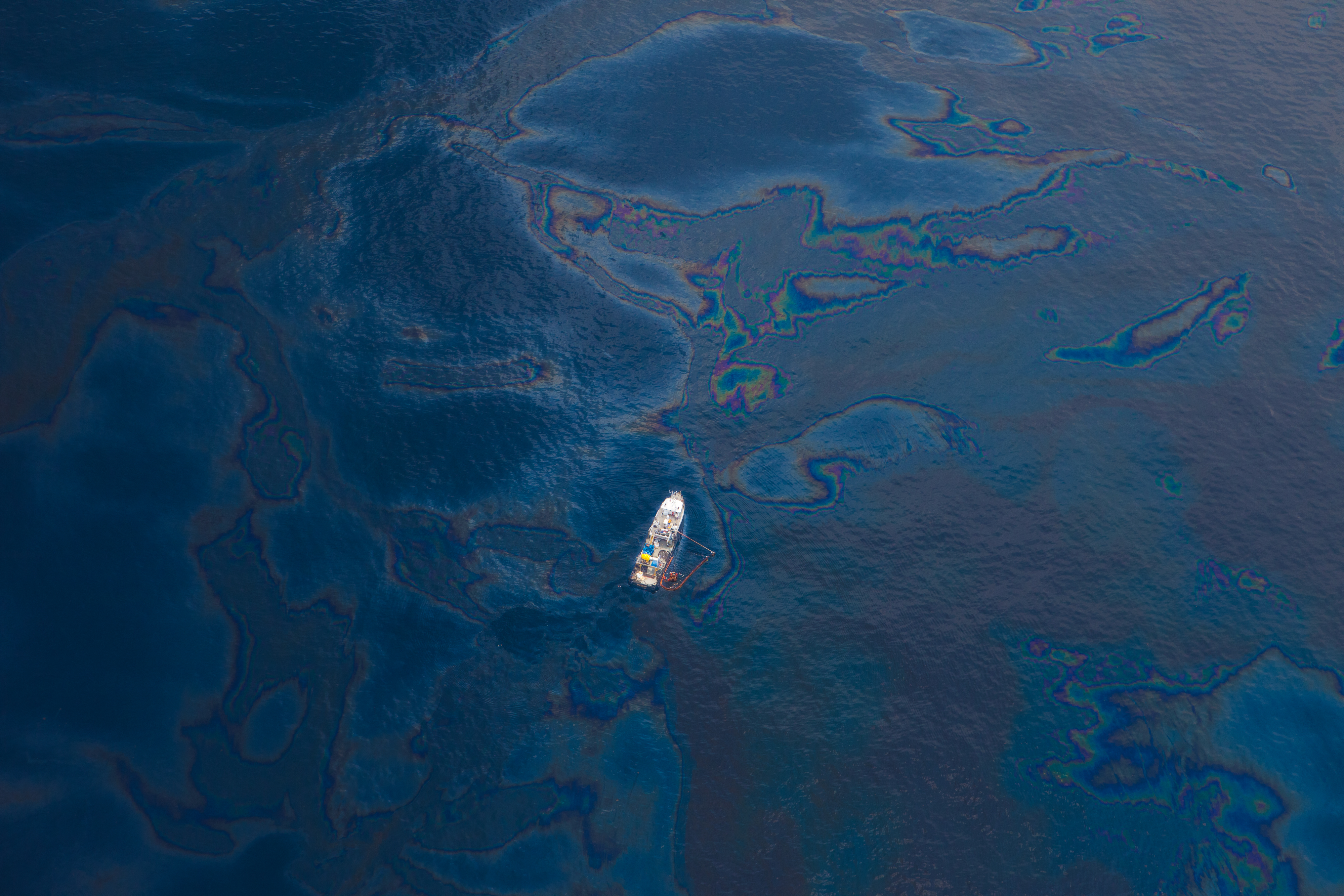 A ship floats amongst a sea of spilled oil in the Gulf of Mexico after the BP Deepwater Horizon oilspill disaster.